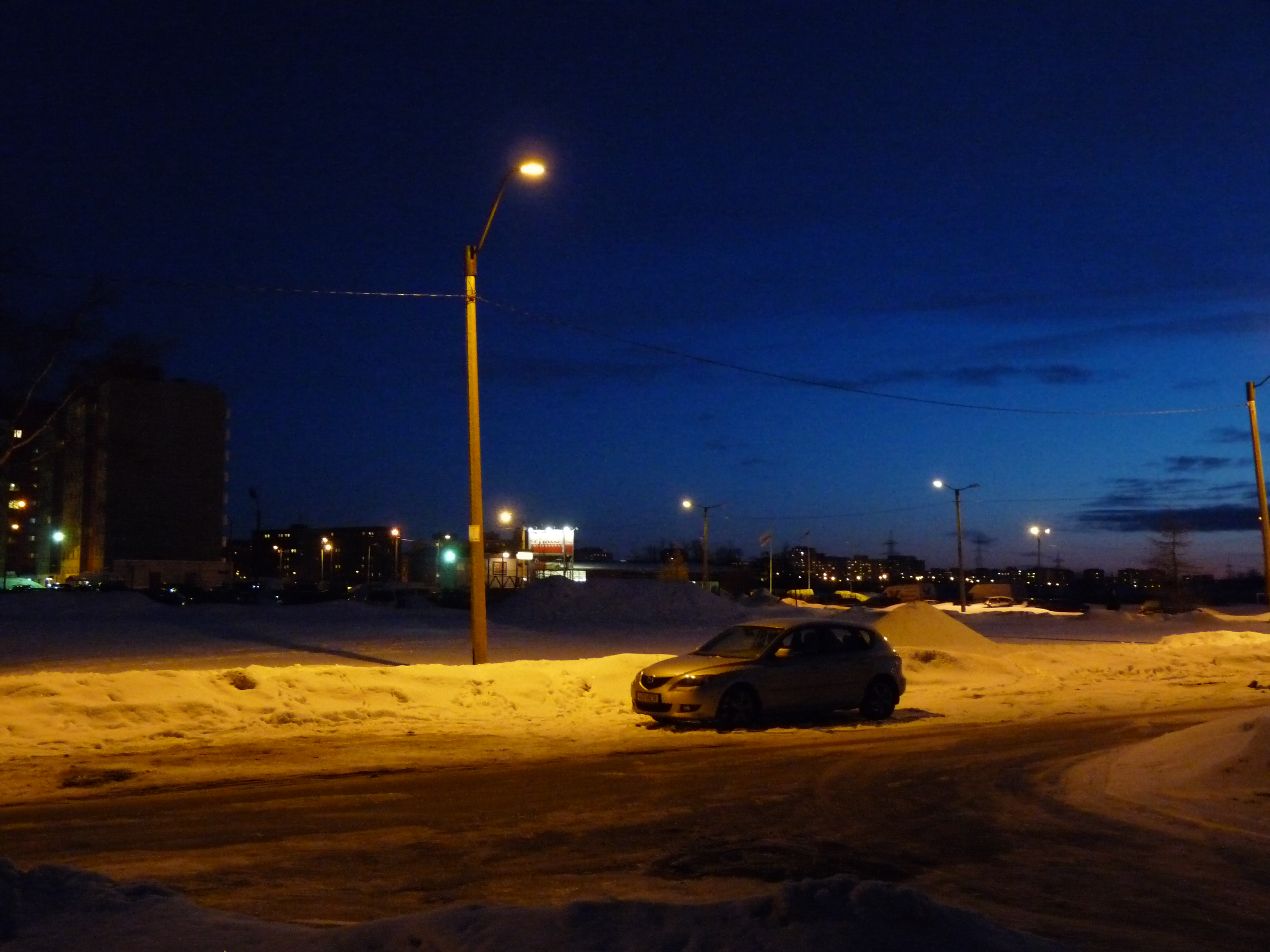 Begining of Katleri street